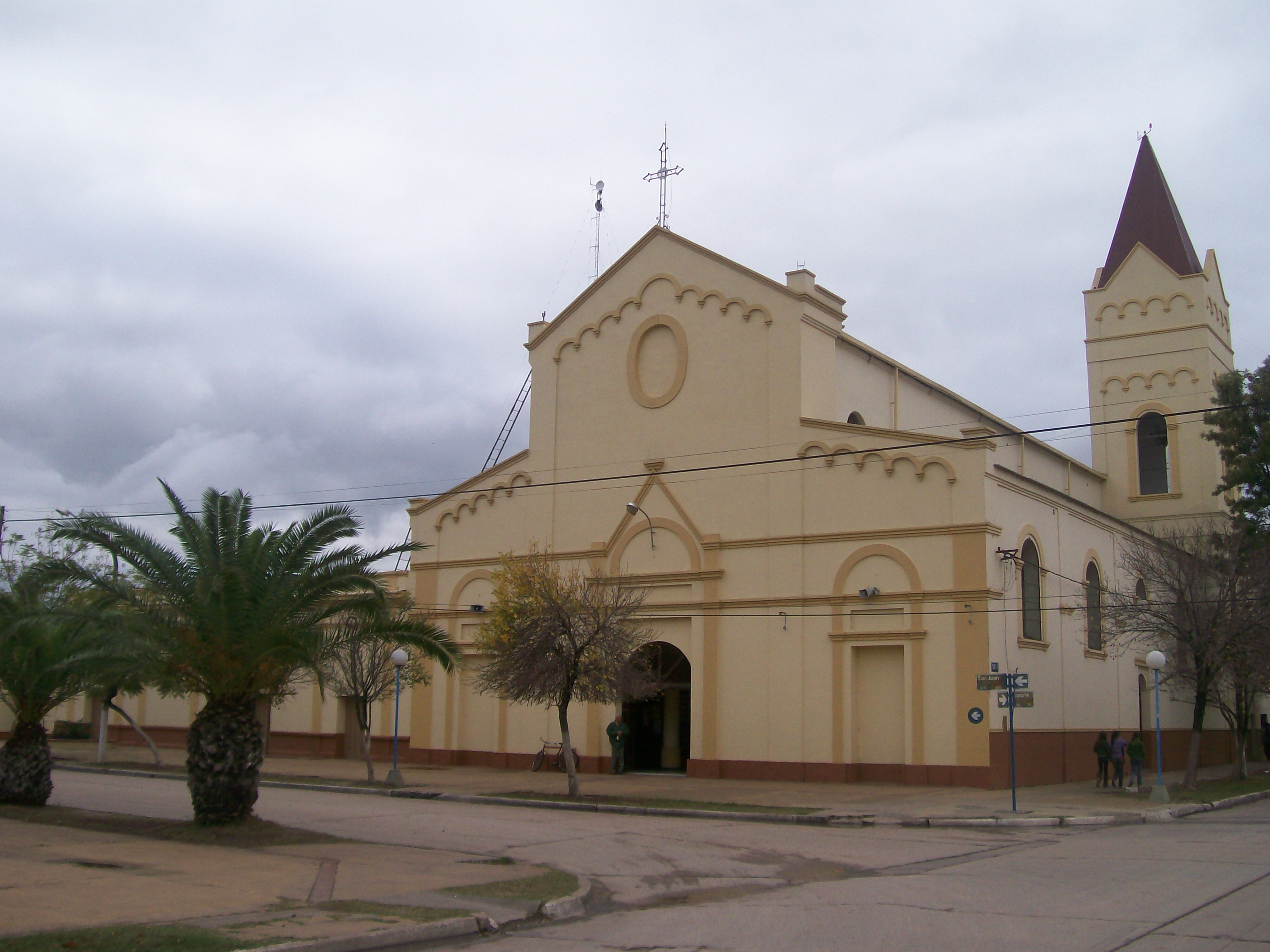 Main catholic church in Quitilipi (Chaco Province, Argentina), in front of main square.